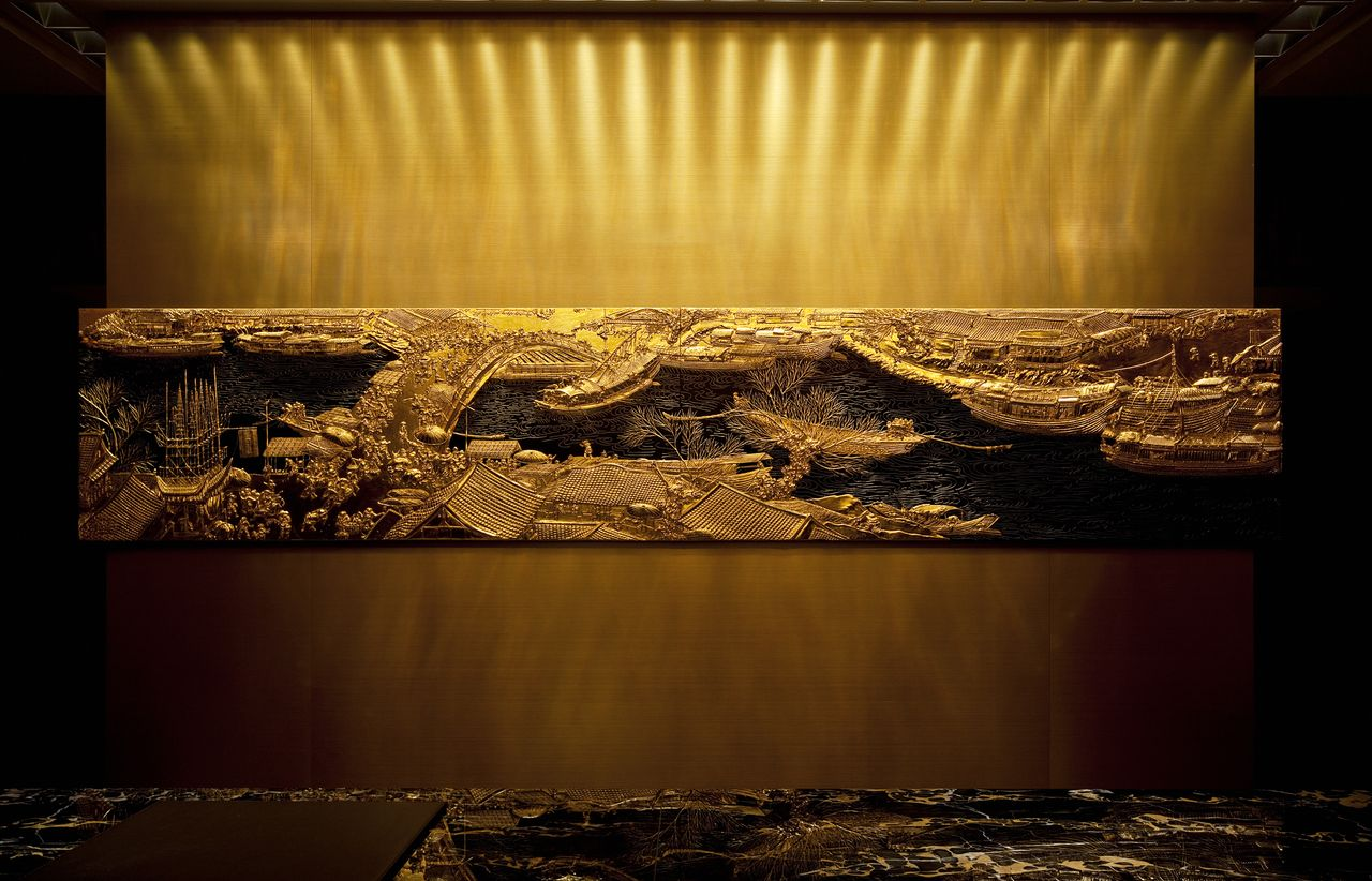 Front Desk